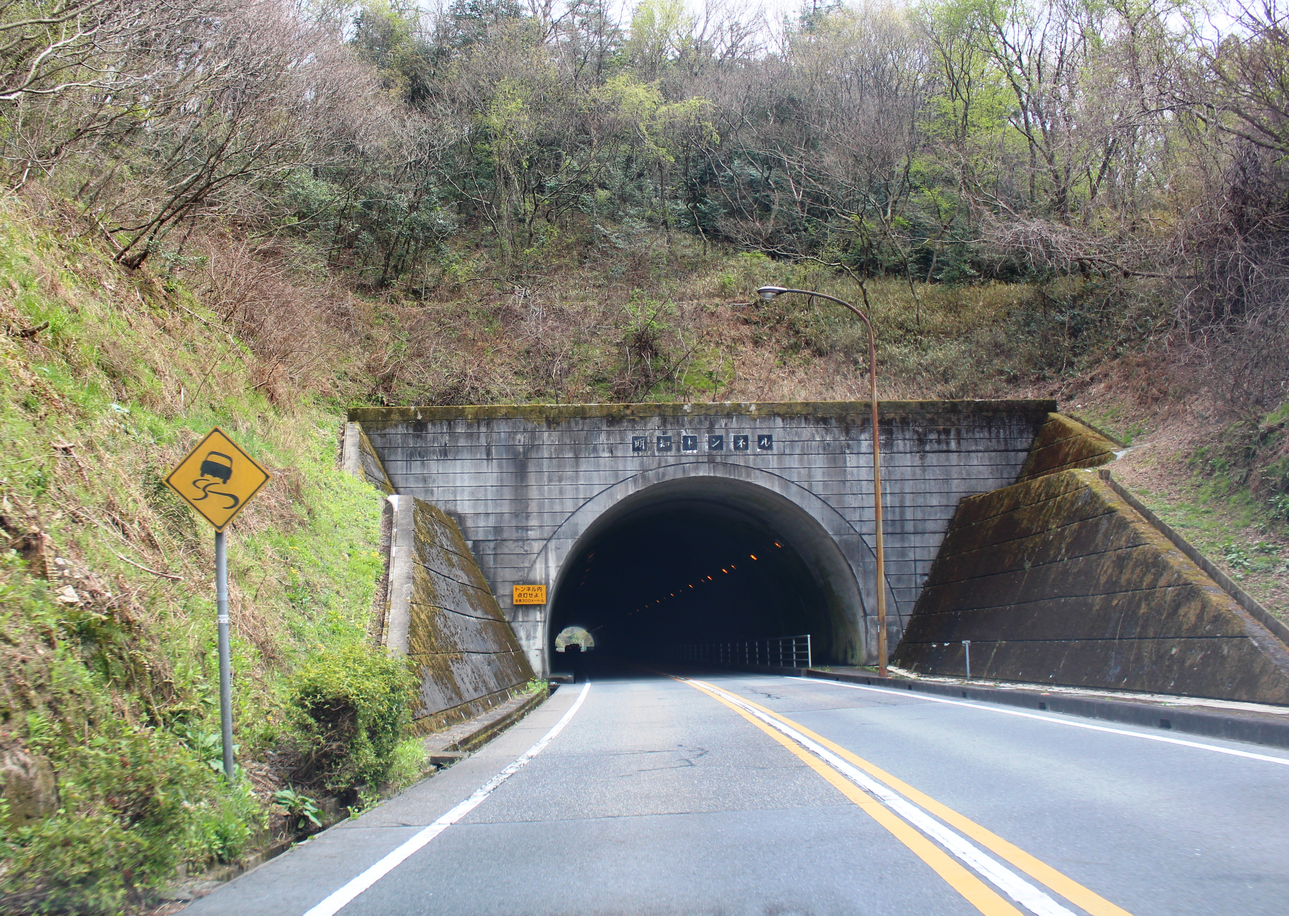 Akechi Tunnel of Aichi prefectural road route 49 in Kasugai, Aichi prefecture, Japan.